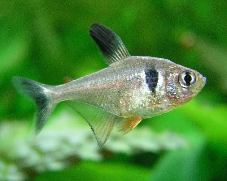 Female Hyphessobrycon Megalopterus